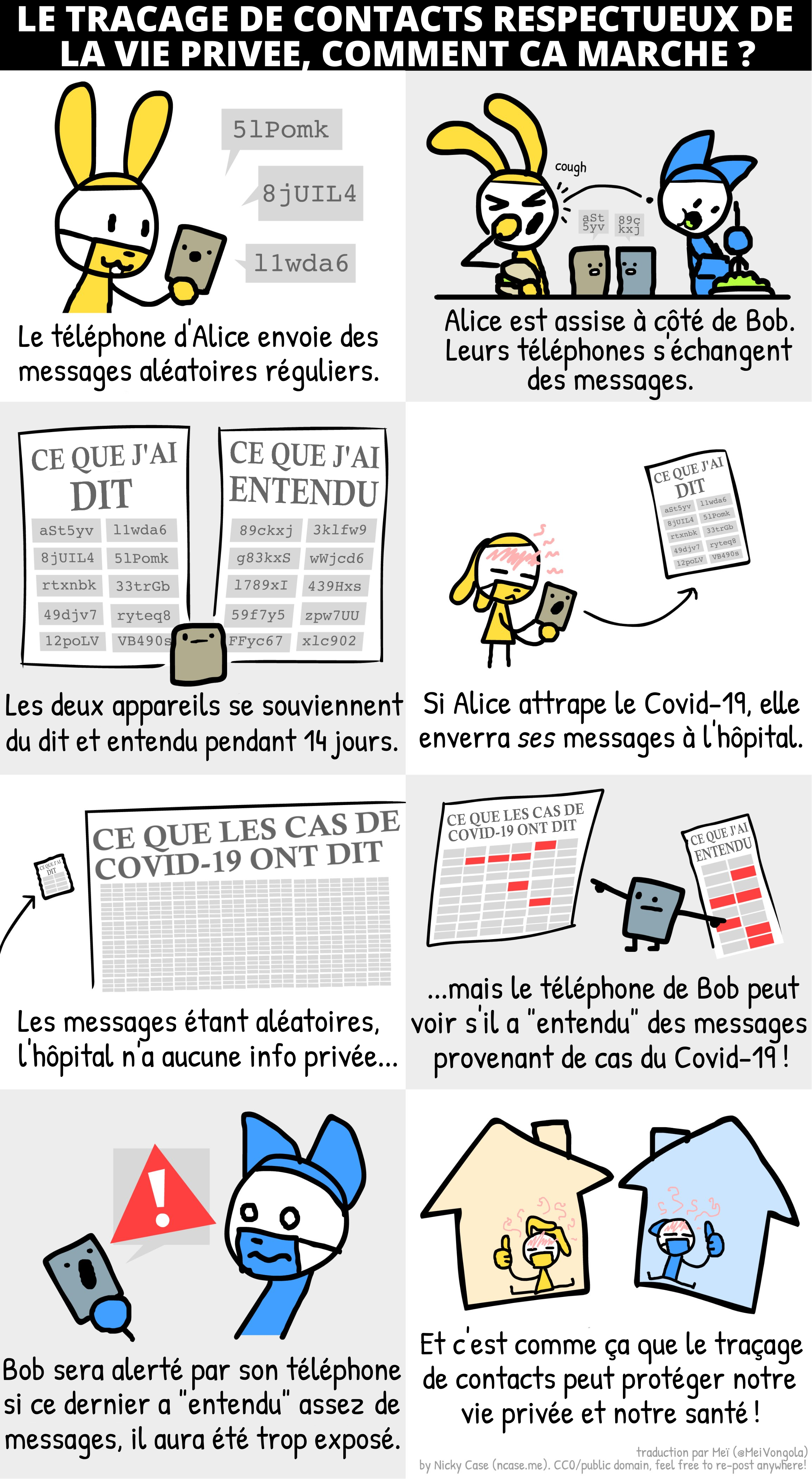 Nicky Case's DP-3T contact tracing informational comic, translated to French.